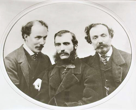 Photo of the brothers Alinari, founders of Fratelli Alinari